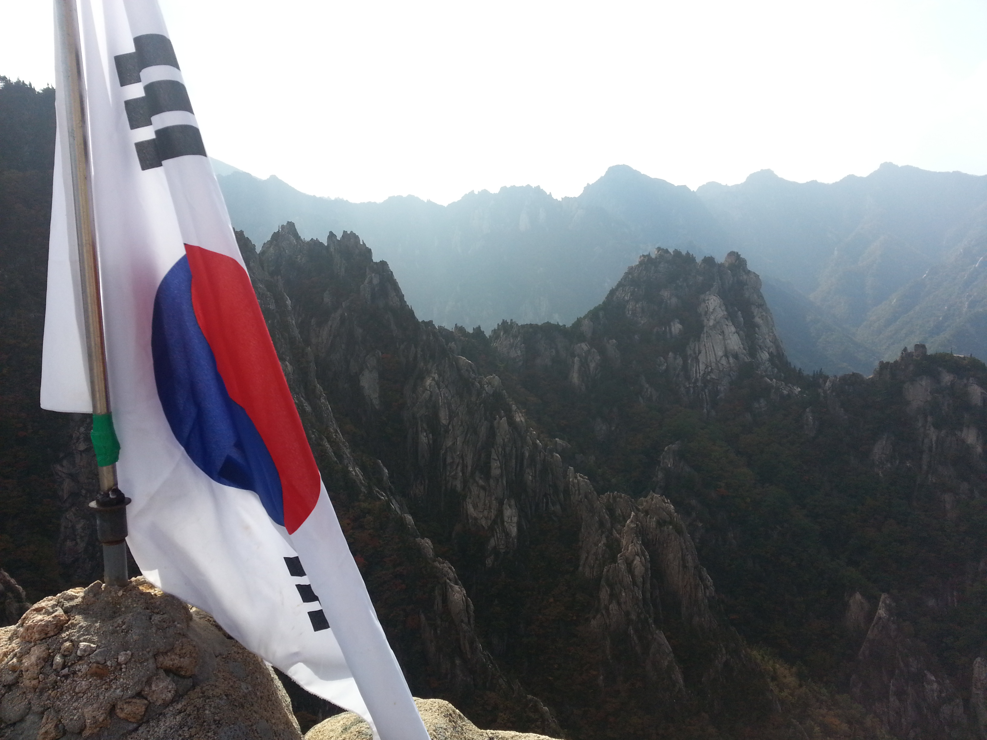 View on the Seoraksan national park.